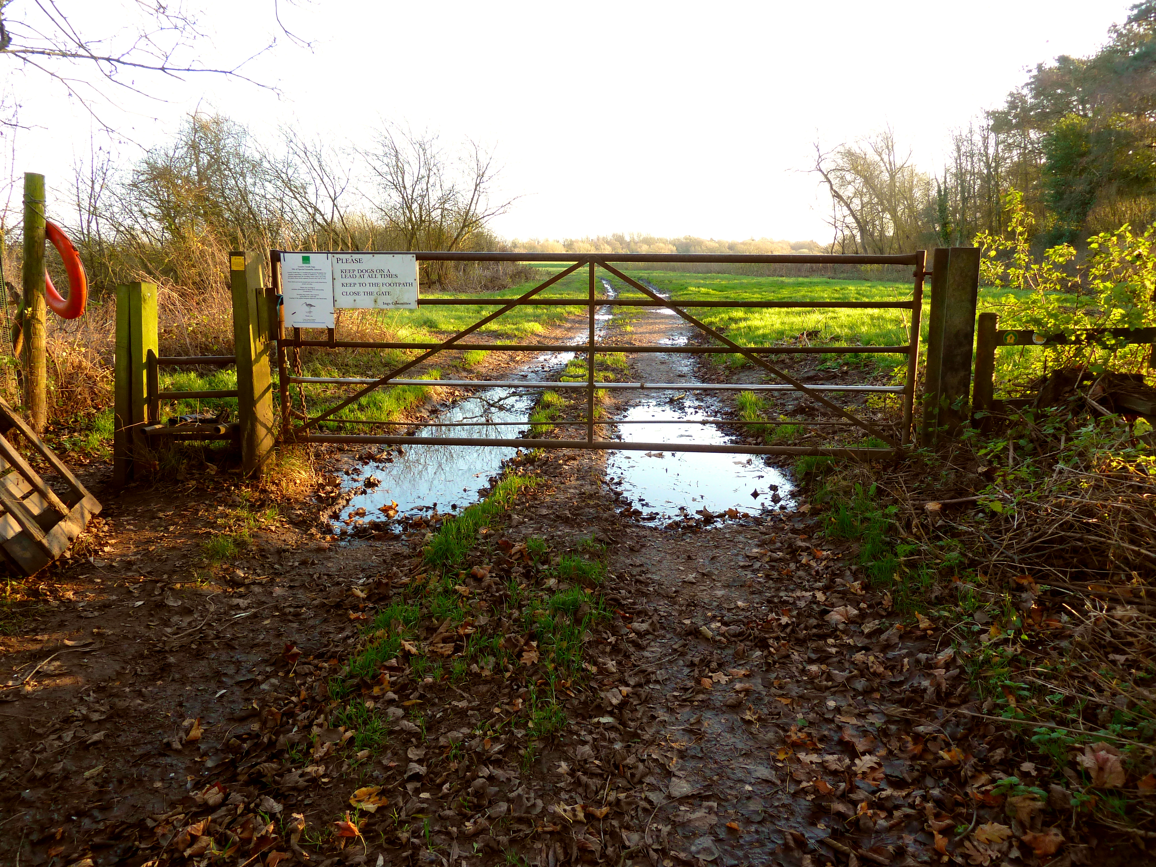 Acaster South Ings, a Site of Special Scientific Interest (SSSI) near the villages of Acaster Malbis and Stillingfleet, about 6 km south of York, England. It was originally a traditionally farmed floodplain hay meadow, and is still maintained as such by Natural England, so as to conserve its wild flowers and breeding curlew. Being adjacent to the River Ouse, it is protected from river flooding by 2-metre high dykes. It was photographed on 9 December 2019 in later afternoon sun, after a rainy summer and autumn, so the willows alongside the river were partially underwater, and there were lakes in the meadows.